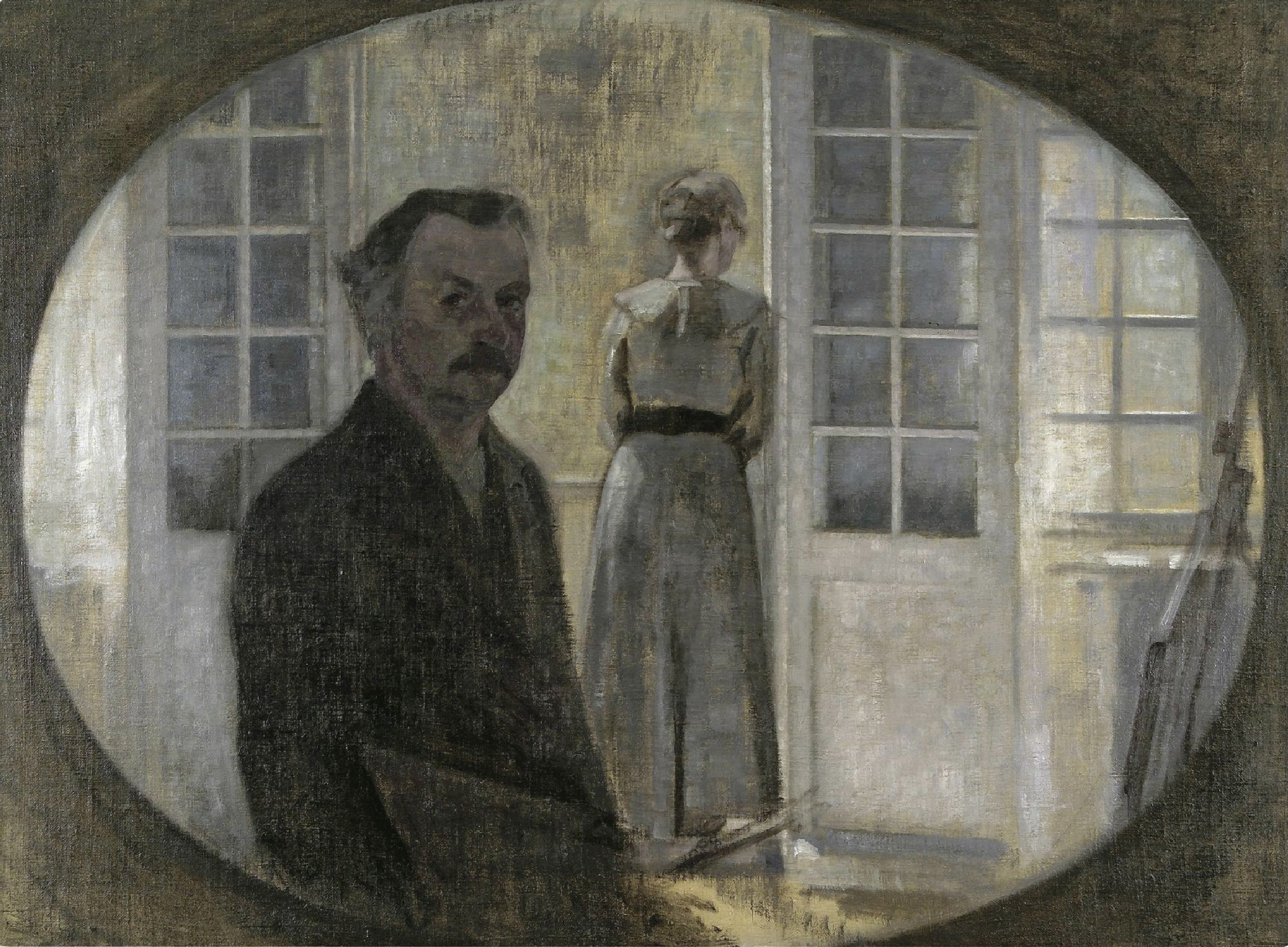 Double portrait of the artist and his wife seen through a mirror oil on canvas 55.2 x 76 cm 1911